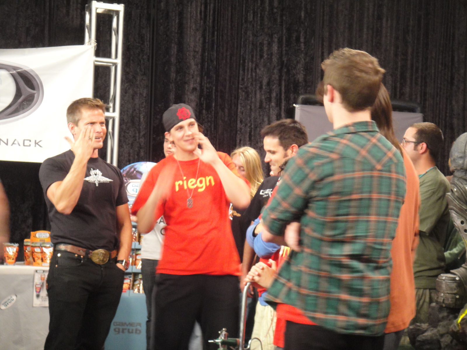 photo 2011 Pop Culture Geek taken by Doug Kline If you're interested in higher resolution versions of my images, contact me via my profile page.